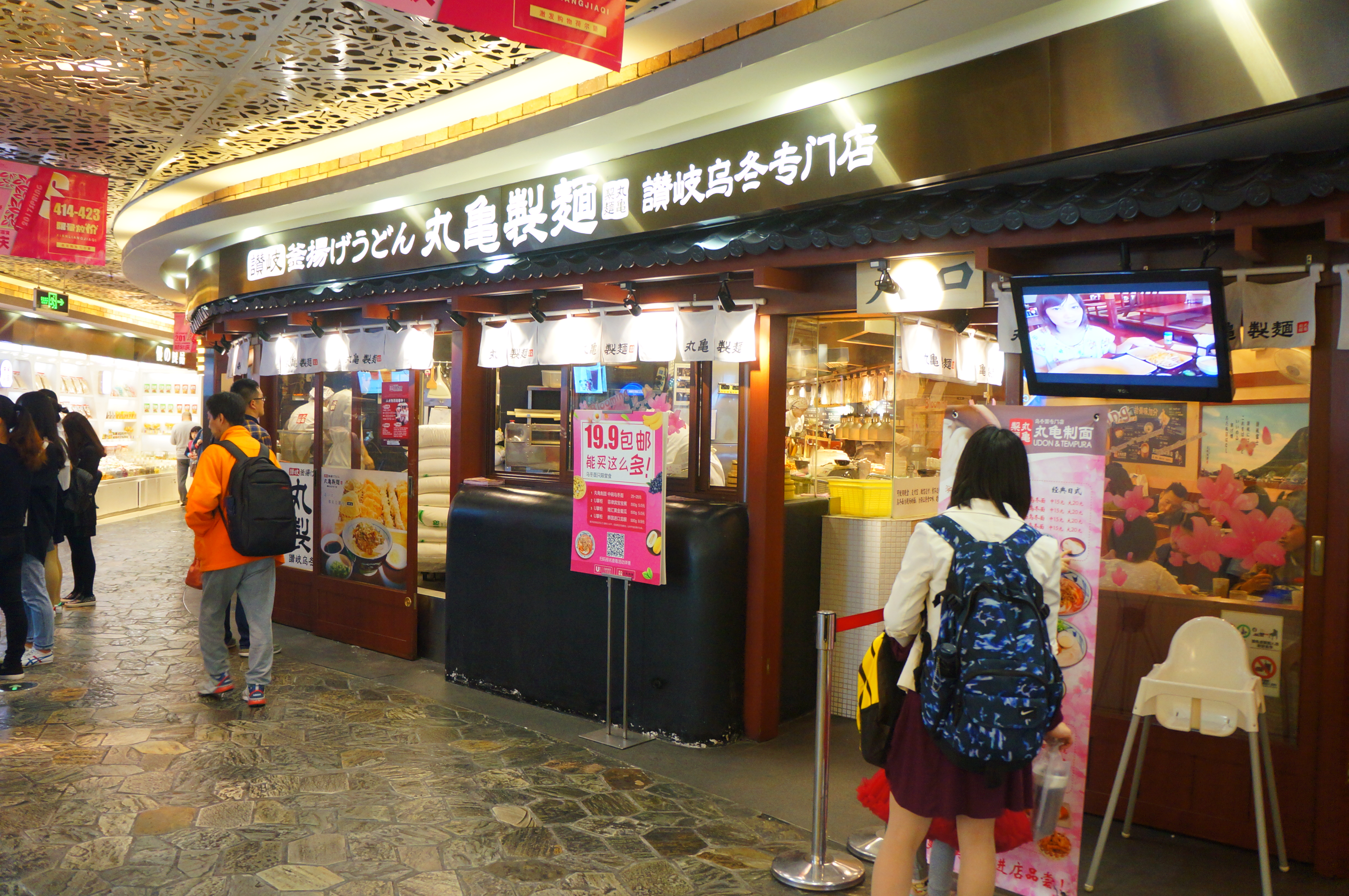 201704 Marugame Noodle Restaurant at Bailian Mall, Wujiaochang, Shanghai